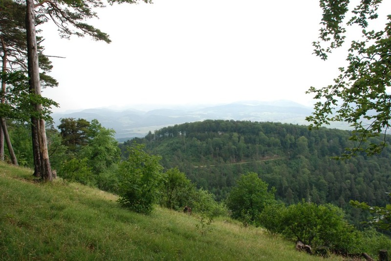 Hills near Aesch (BL), Basel-Land, Switzerland